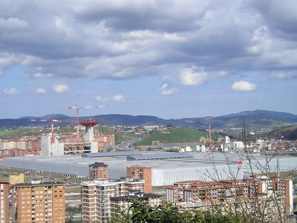 Bilbao Exhibition Centre, from higher elevations. Own photograph, taken the 1st of April 2004.